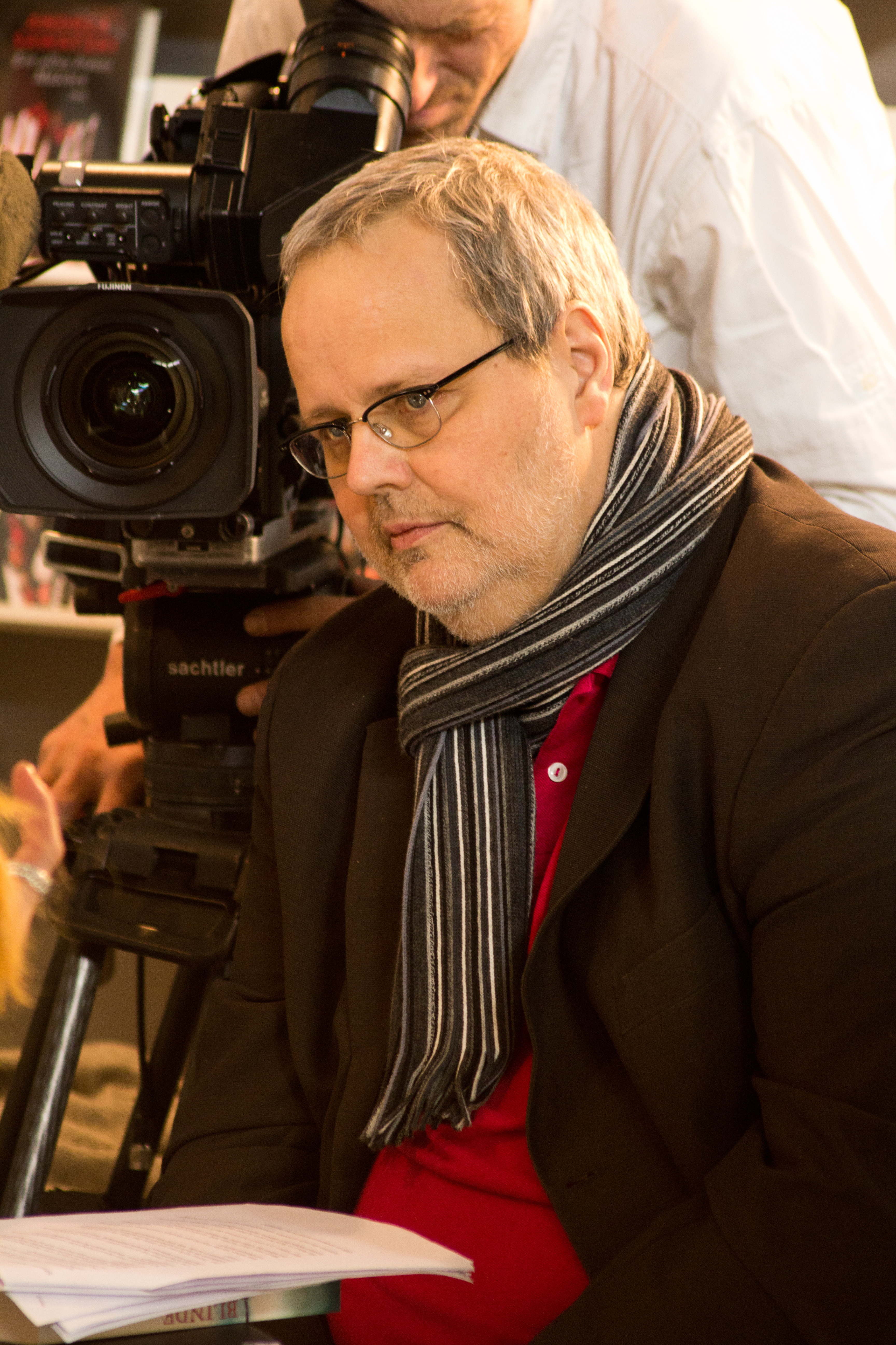 The german literature reporter Peter Hetzel